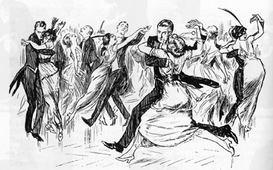 Drawing from Punch magazine humorously depicting couple dancing the tango.